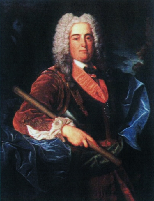 Portrait of Francis of Braganza, Infante of Portugal